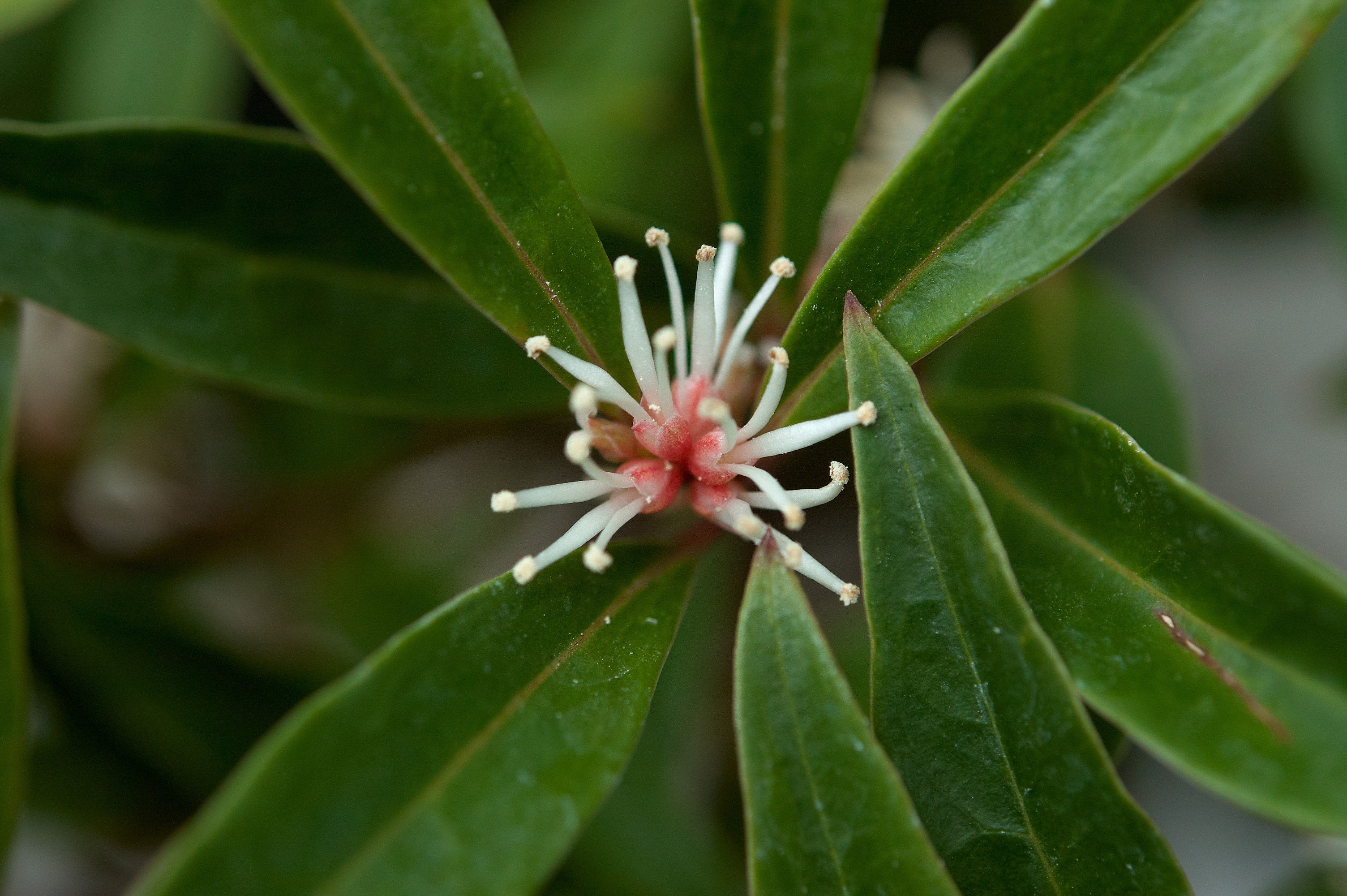 Flower of Sarcococca hookeriana var. digyna